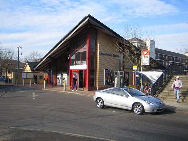 Abbey Wood railway station. This building is the main entrance to the station, and can be seen to the right of the train in Neil's 141798. The station is currently the planned south-eastern terminus of the Crossrail project, and an image of the proposed re-design of the station can be found here